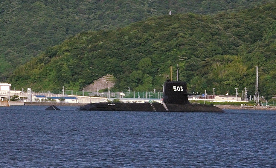 JS Hakuryū (SS-503) at Yura Naval Base, five months before her commissioning day. Nikon D90 + AF-S DX Nikkor 18-105mm f/3.5-5.6G ED VR